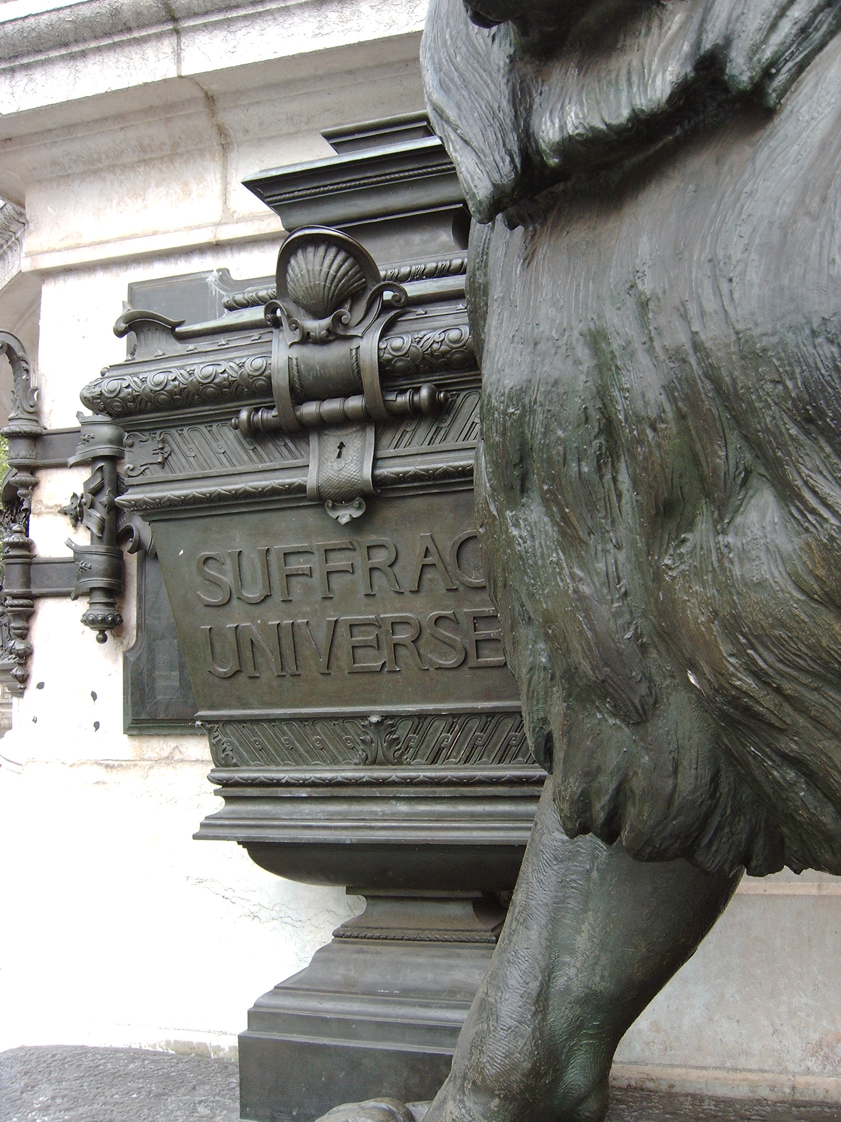 Bronze lion, Monument to the Republic, Place de la République, Paris